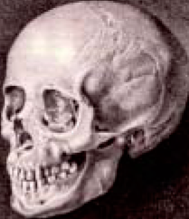 The skull Blumenbach discovered in 1795 to hypothesize origination of Europeans from the Caucasus.